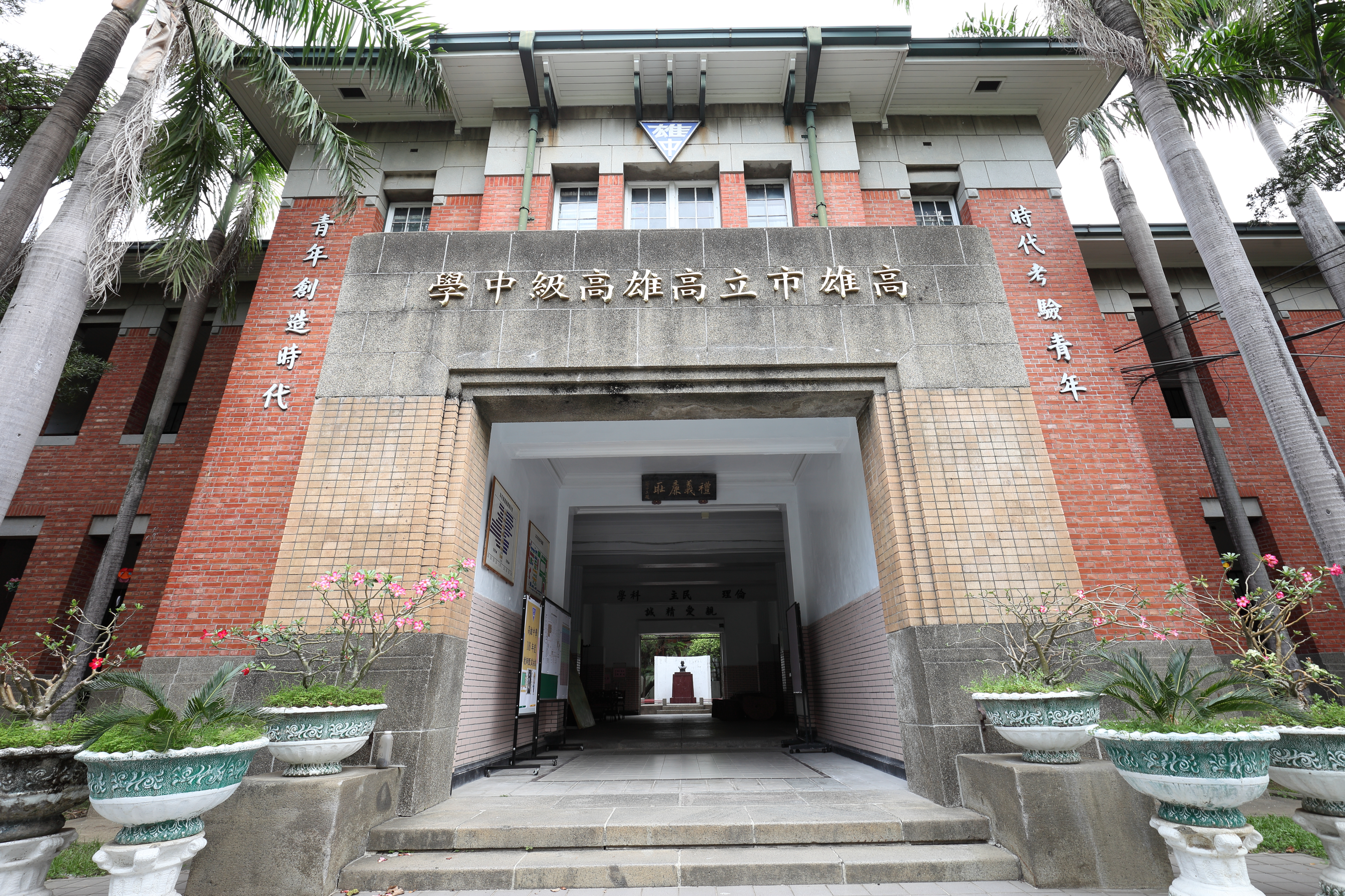 Front Gate of KSHS bulding 1